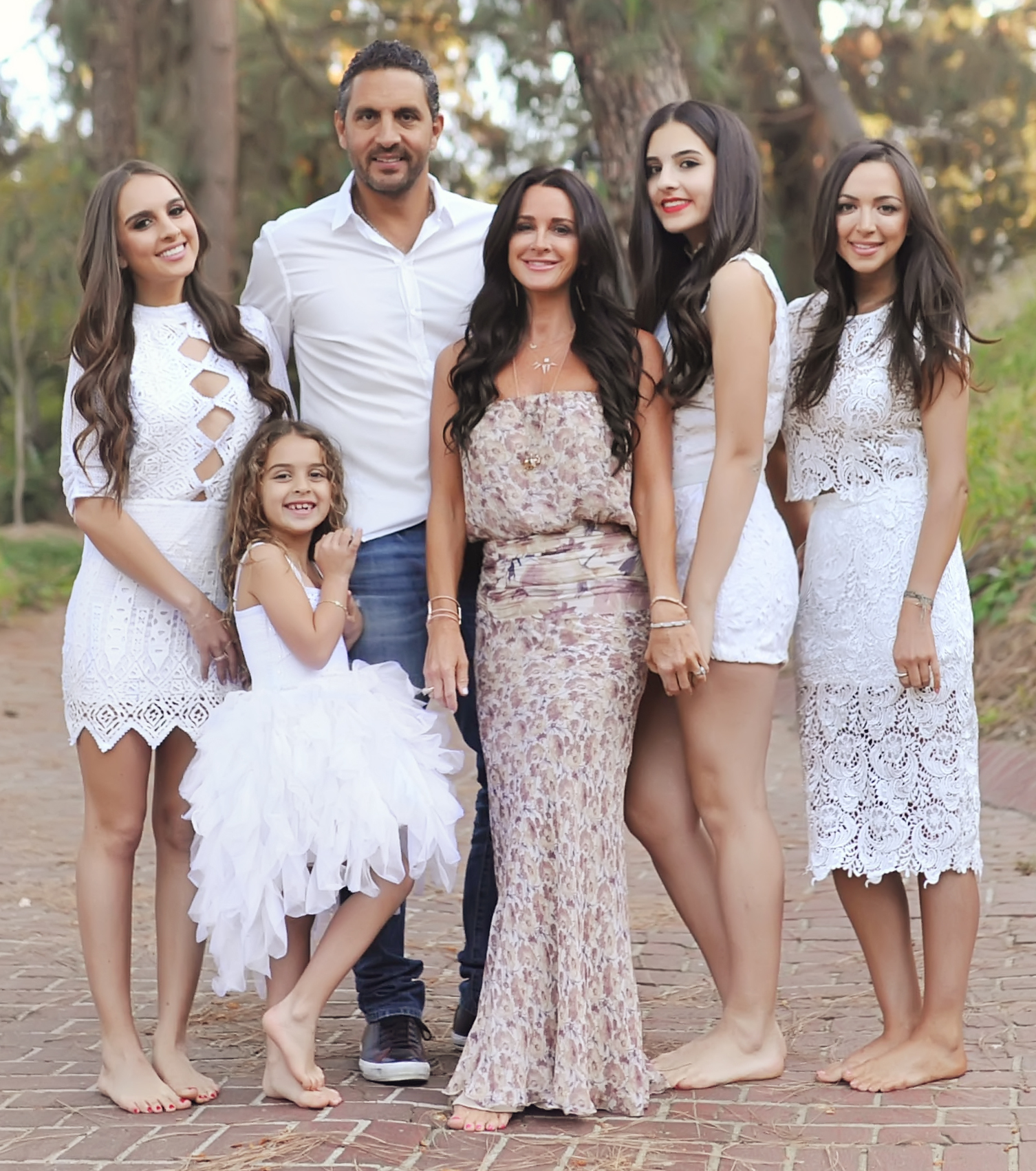 Mauricio Umansky with wife Kyle Richards and daughters Farrah Aldjufrie, Alexia Umansky, Sophia Umansky and Portia Umansky.